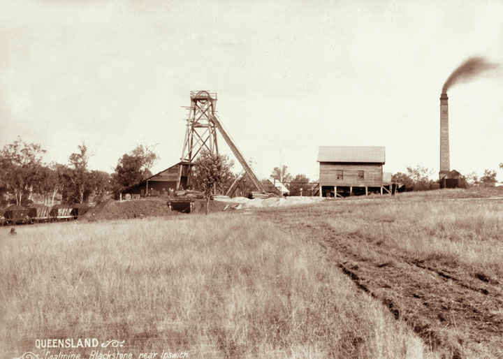 Coal mine at Blackstone near Ipswich.